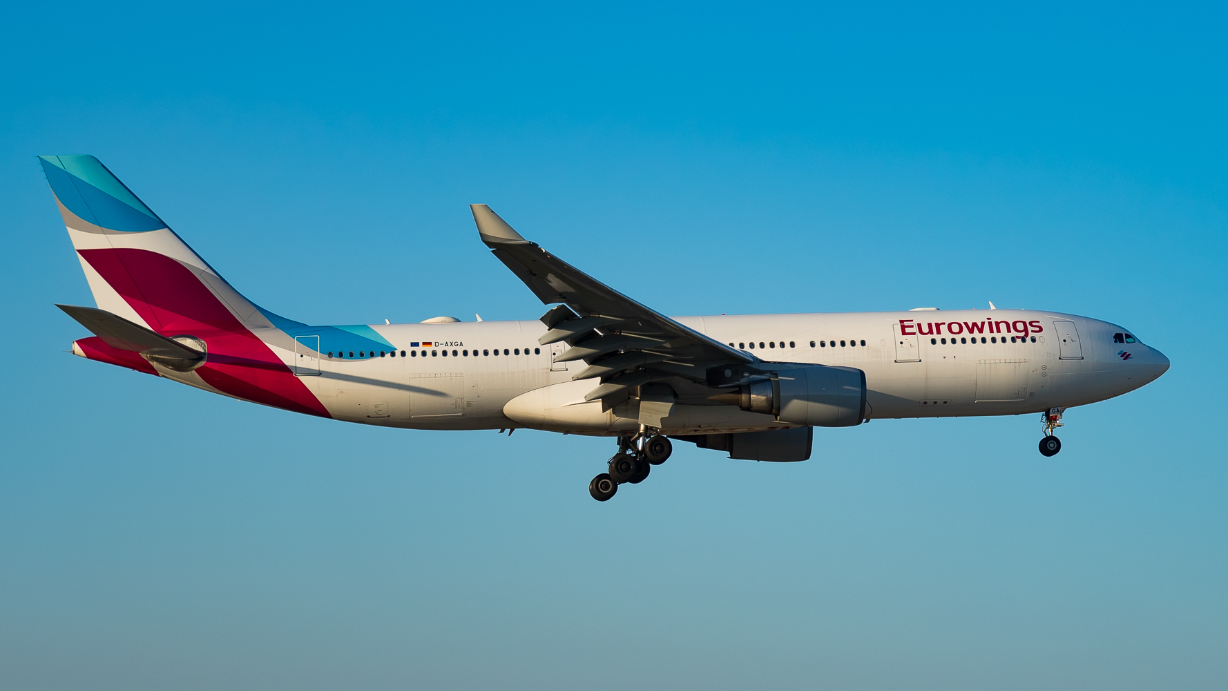 Eurowings A330 landing in KMIA